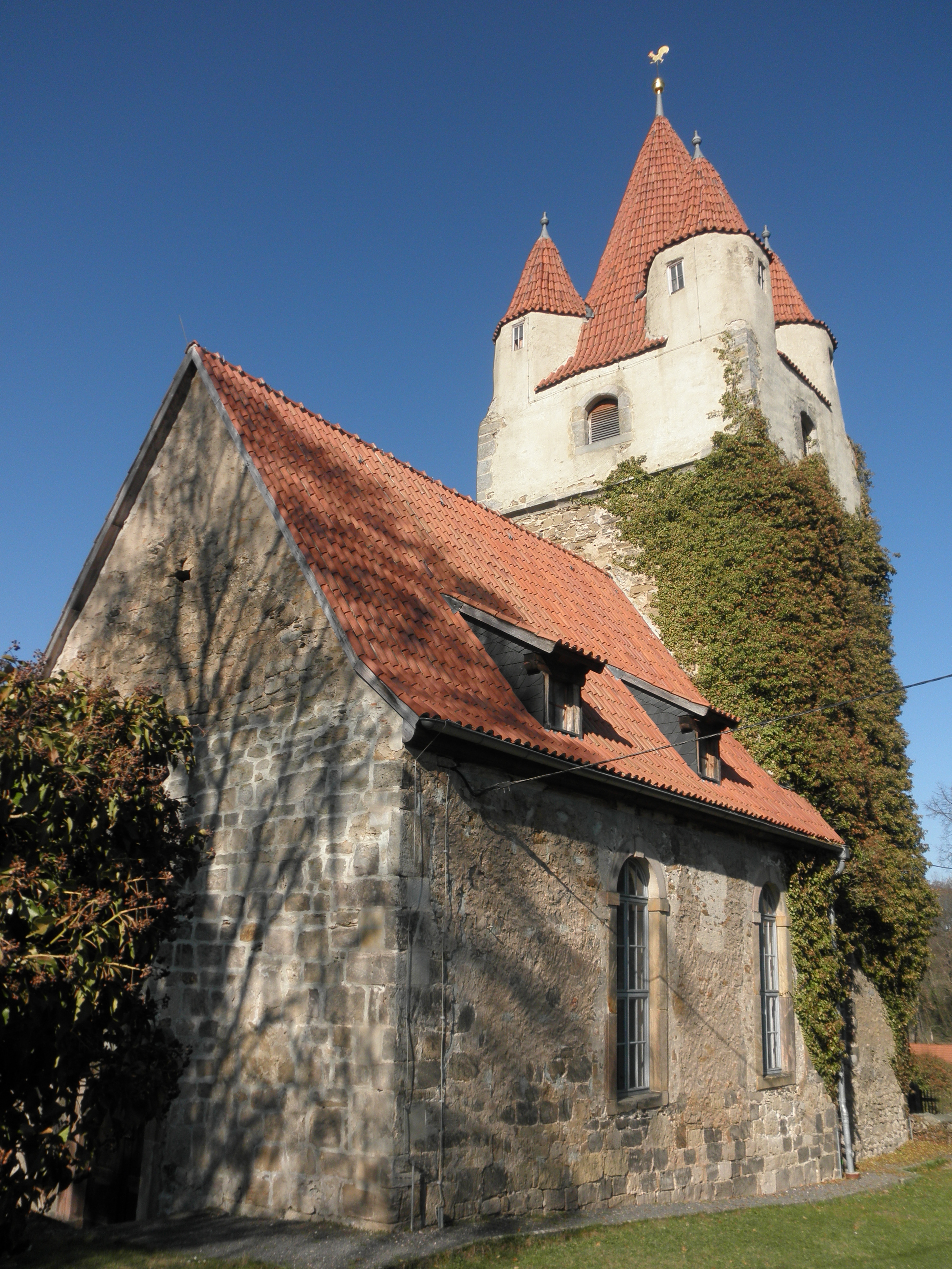 Church in Oberoppurg in Thuringia